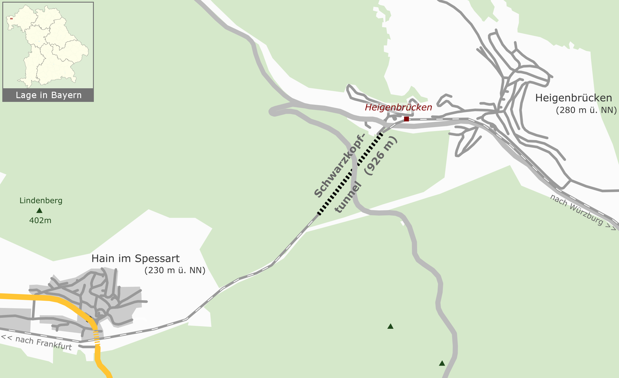 Map of the Schwarzkopftunnel on the Main–Spessart Railway near Heigenbrücken, Bavaria, Germany This map may be incomplete, and may contain errors. Don't rely solely on it for navigation.